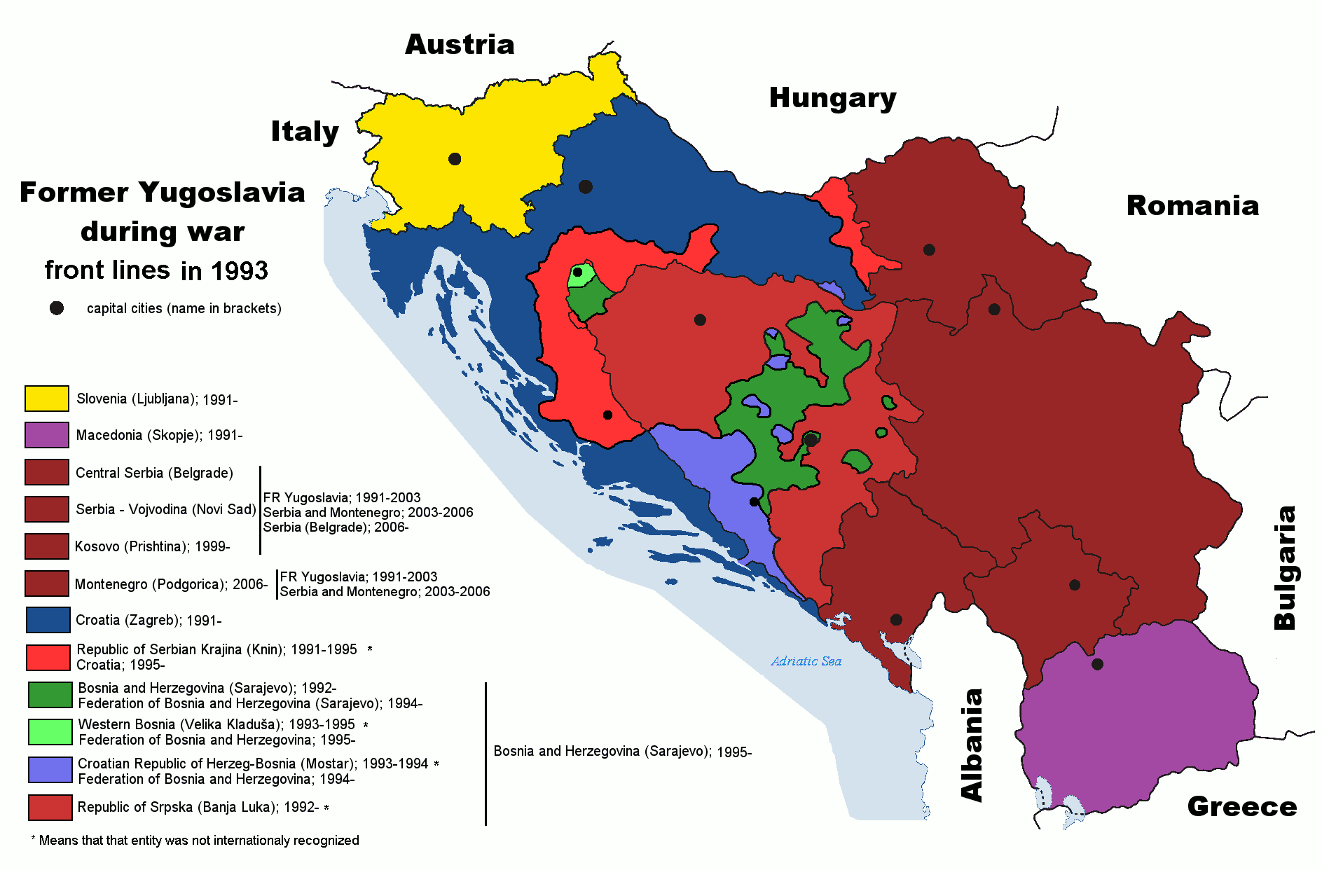 Map of former Yugoslavia during war. Author: Paweł Goleniowski (swPawel)